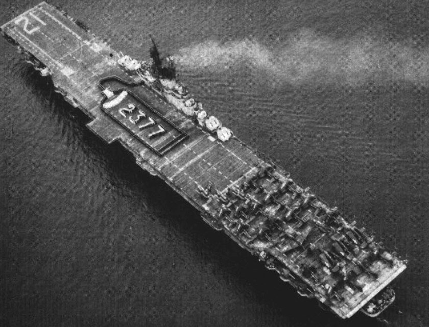 Crewmen of the U.S. Navy aircraft carrier USS Boxer (CV-21) taking a unique way to show that the crew donated 2377 pints (1124.56 l) of blood.